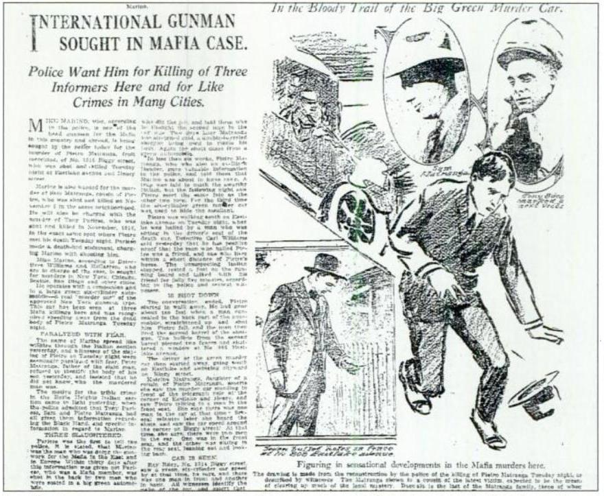 A scanned copy from the Los Angeles Times.